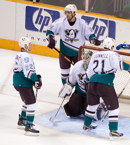 Ducks at Sharks April 15, 2006